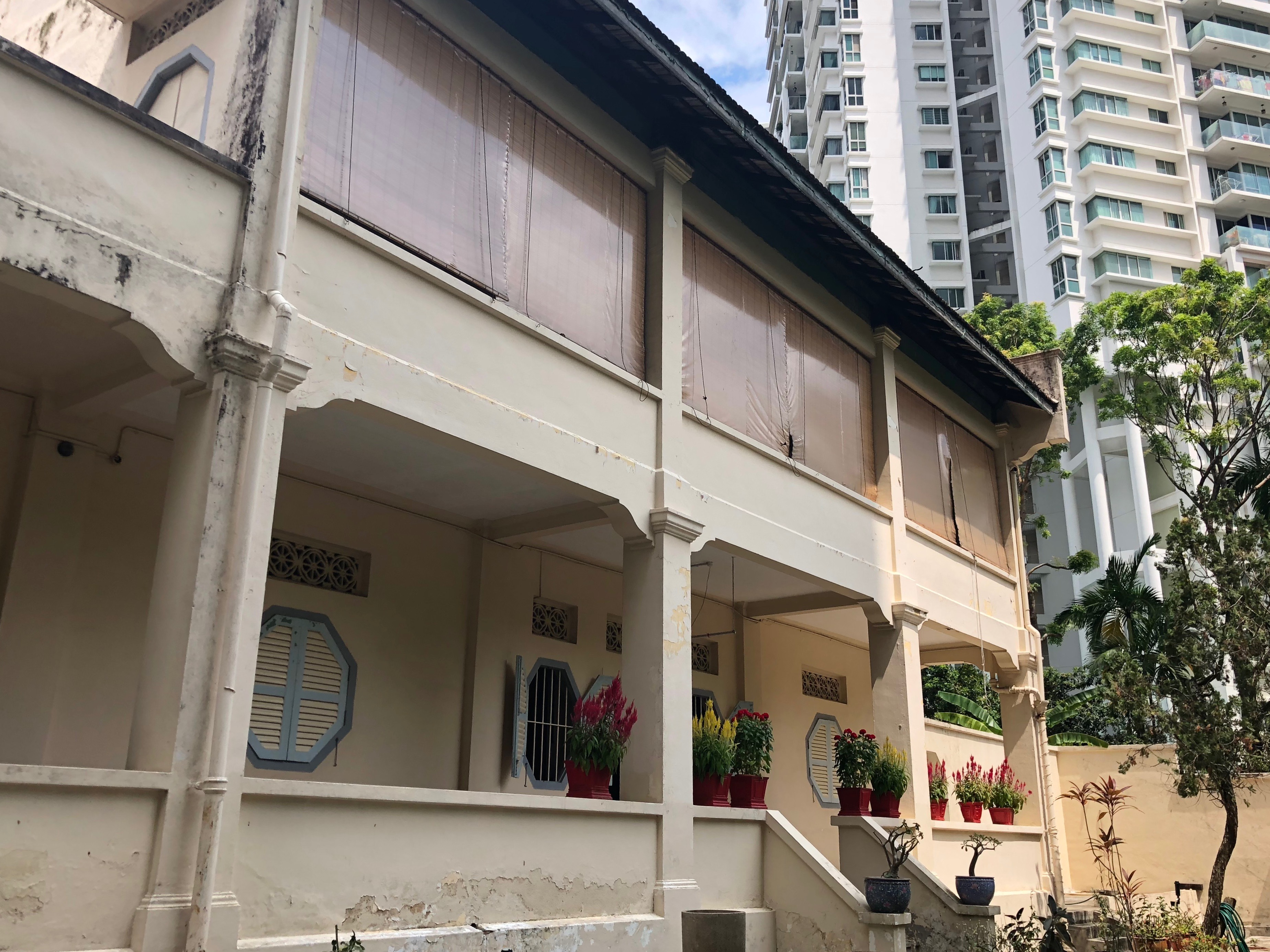 Built in 1936, this building housed the migrant women. Photo taken on the 3rd day of the Chinese New Year when it is open to the public